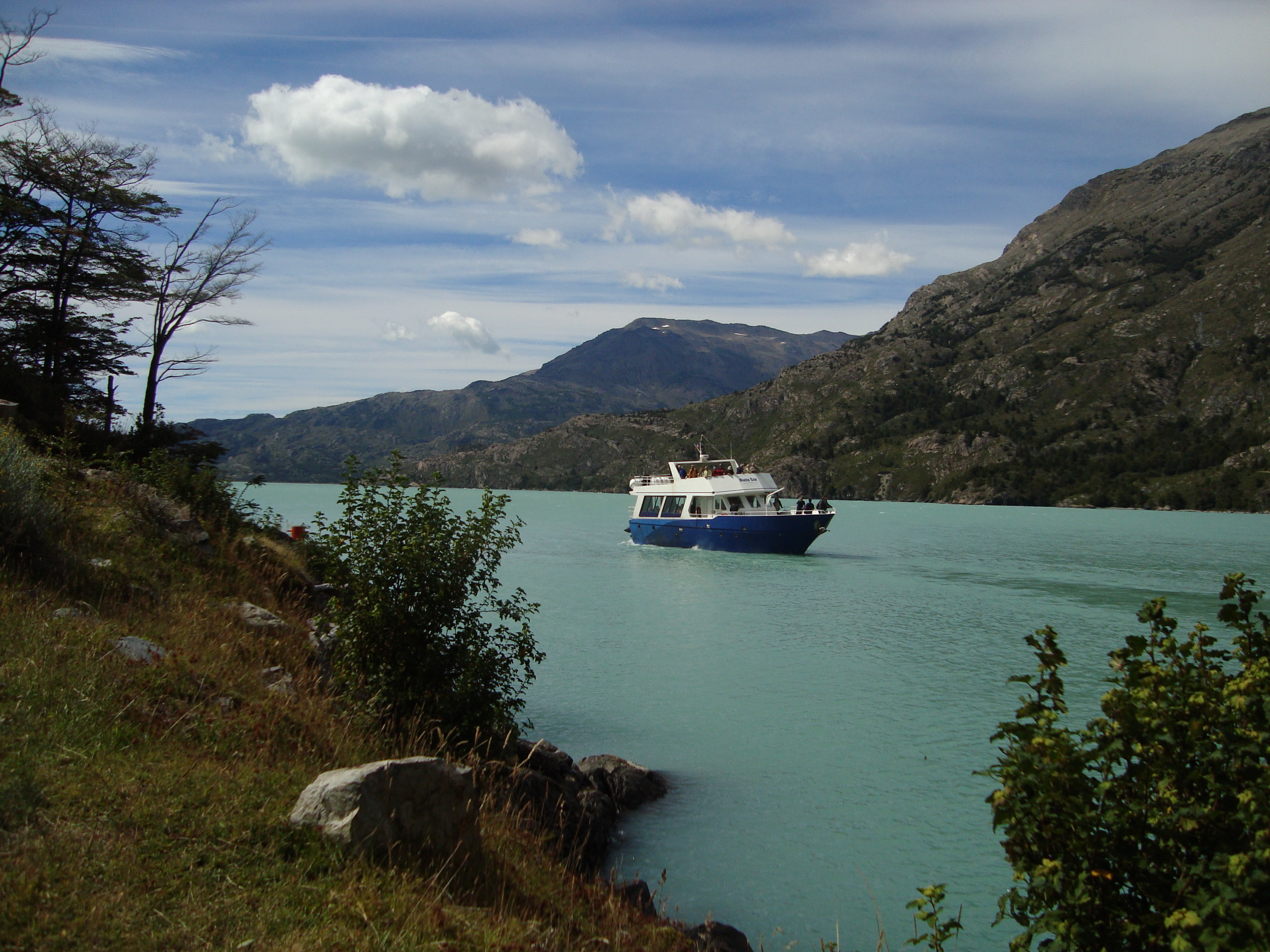 The ferry on to O'Higgins glacier.